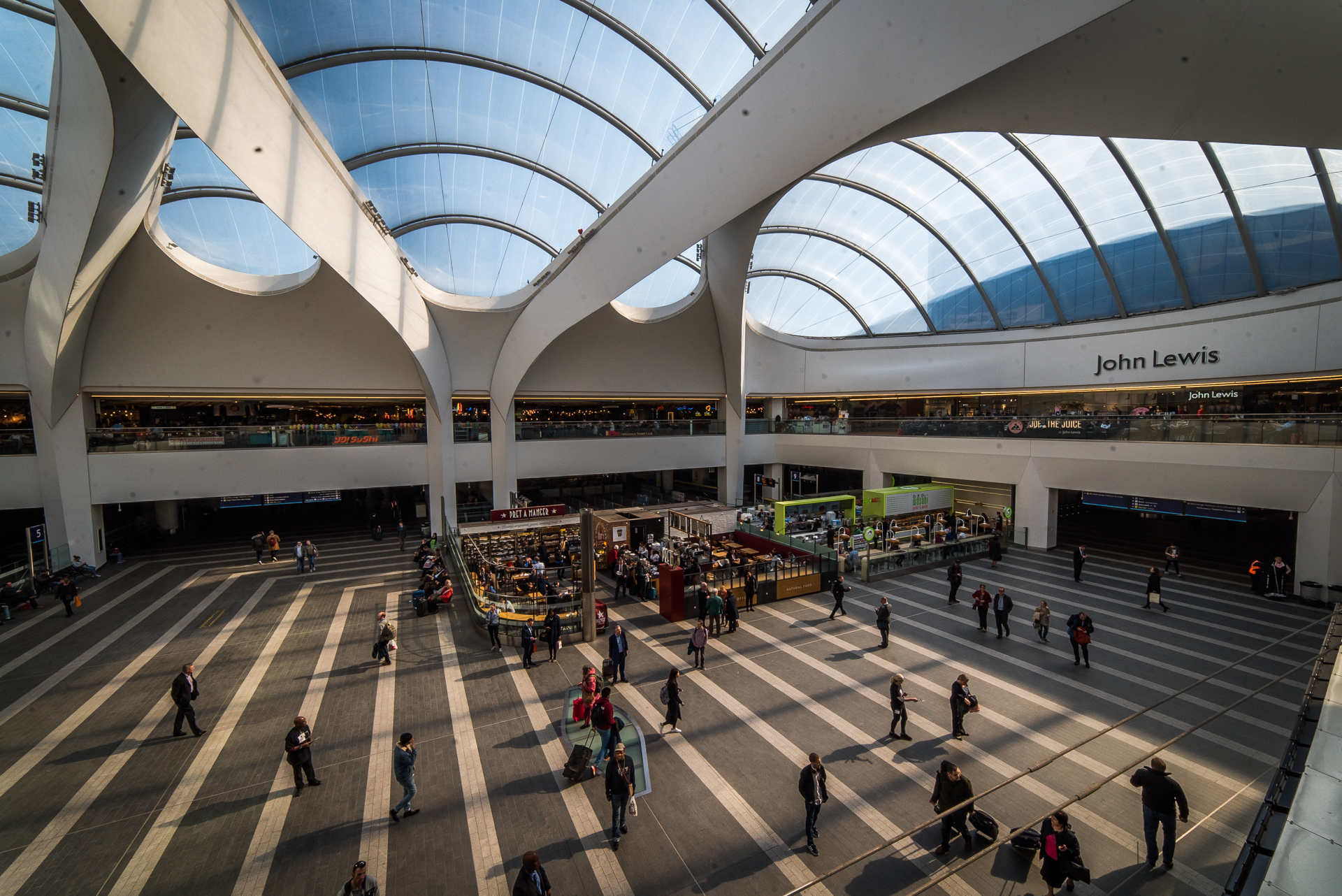 Birmingham New Street Station Birmingham New Street railway station in Birmingham, England